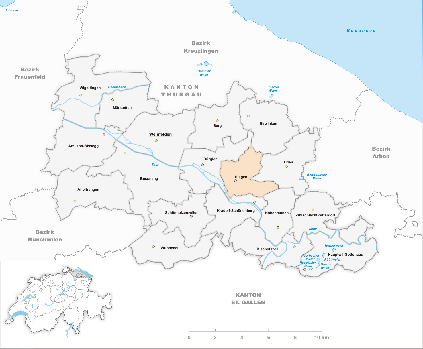 Municipality Sulgen